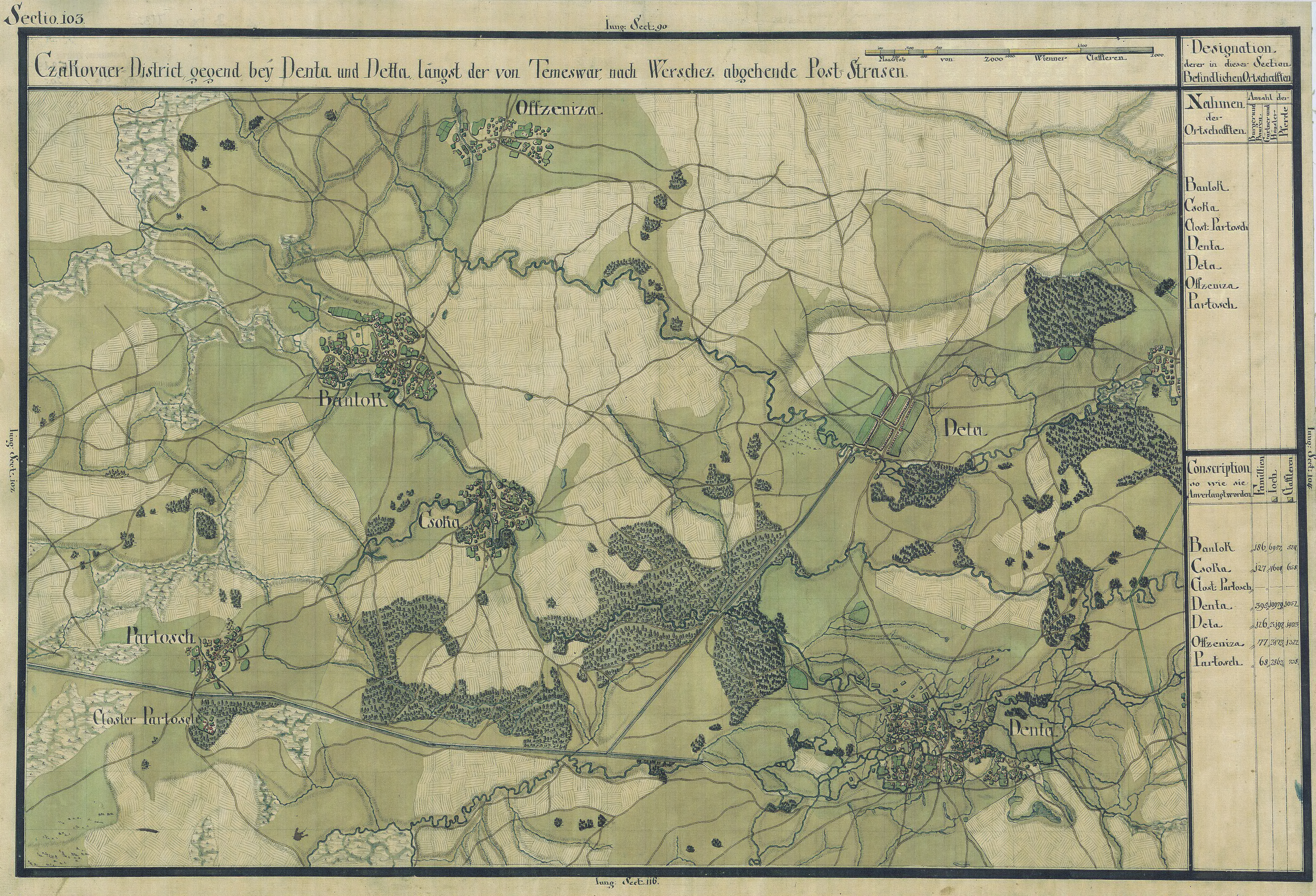 The Banat region in the cadastral maps: Josephinische Landesaufnahme, 1769-72. Josephinische Landaufnahme pg103